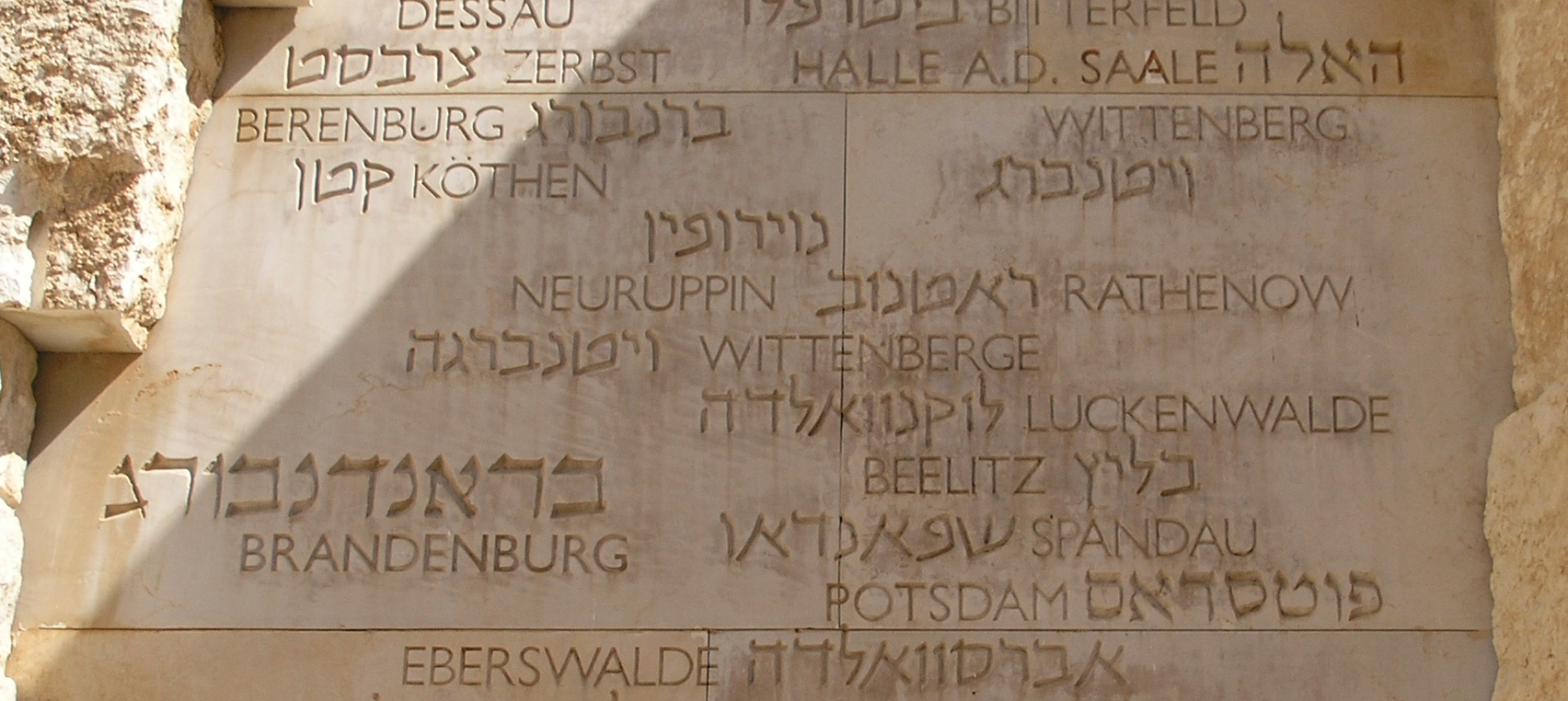 YadVashem Valley of the Communities Close up